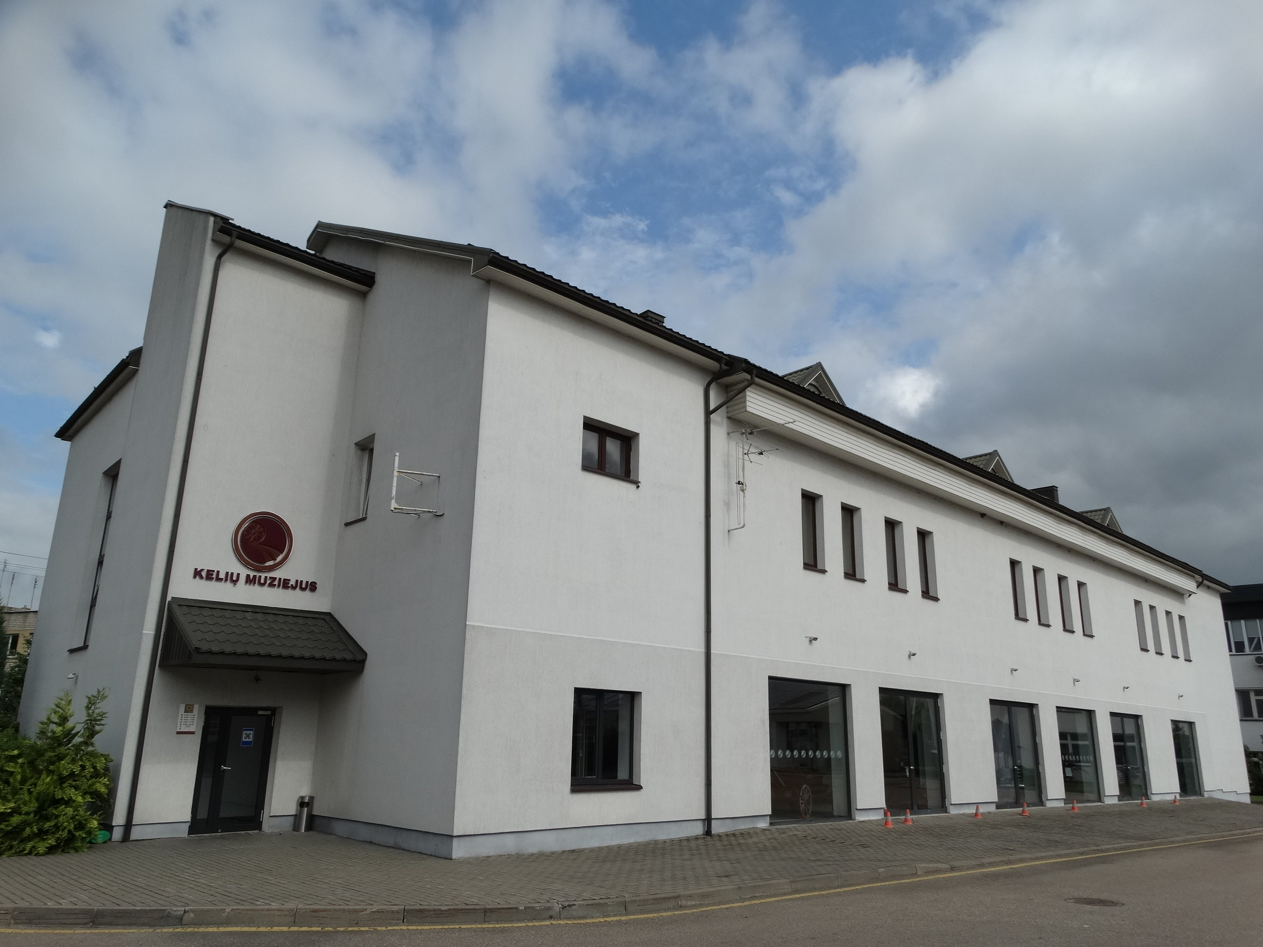 Vievis, museum of highways, Elektrėnai Municipality, Lithuania